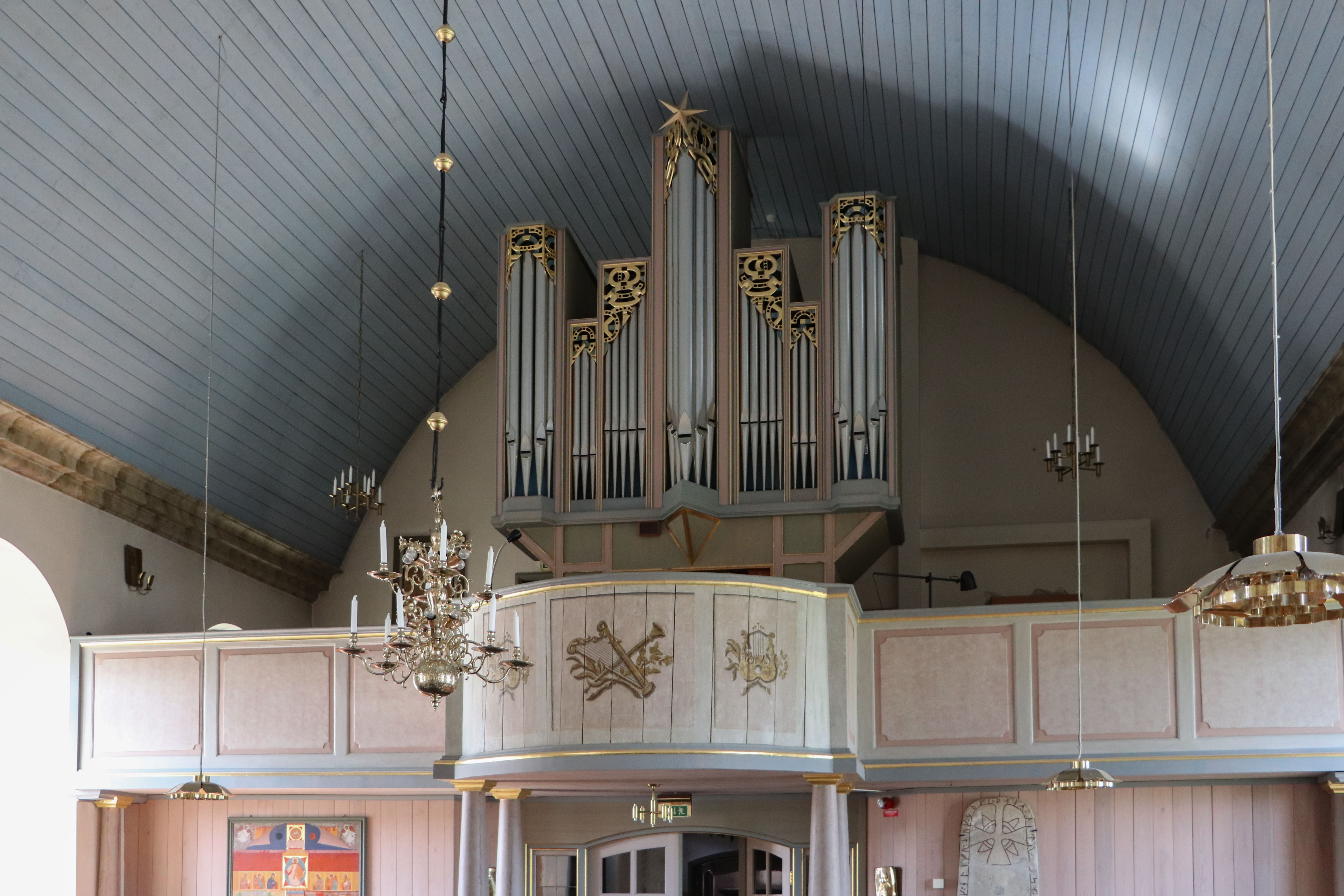 Mörbylånga Church.The organ.